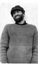 Photo of Margarit Tzanev in 1966